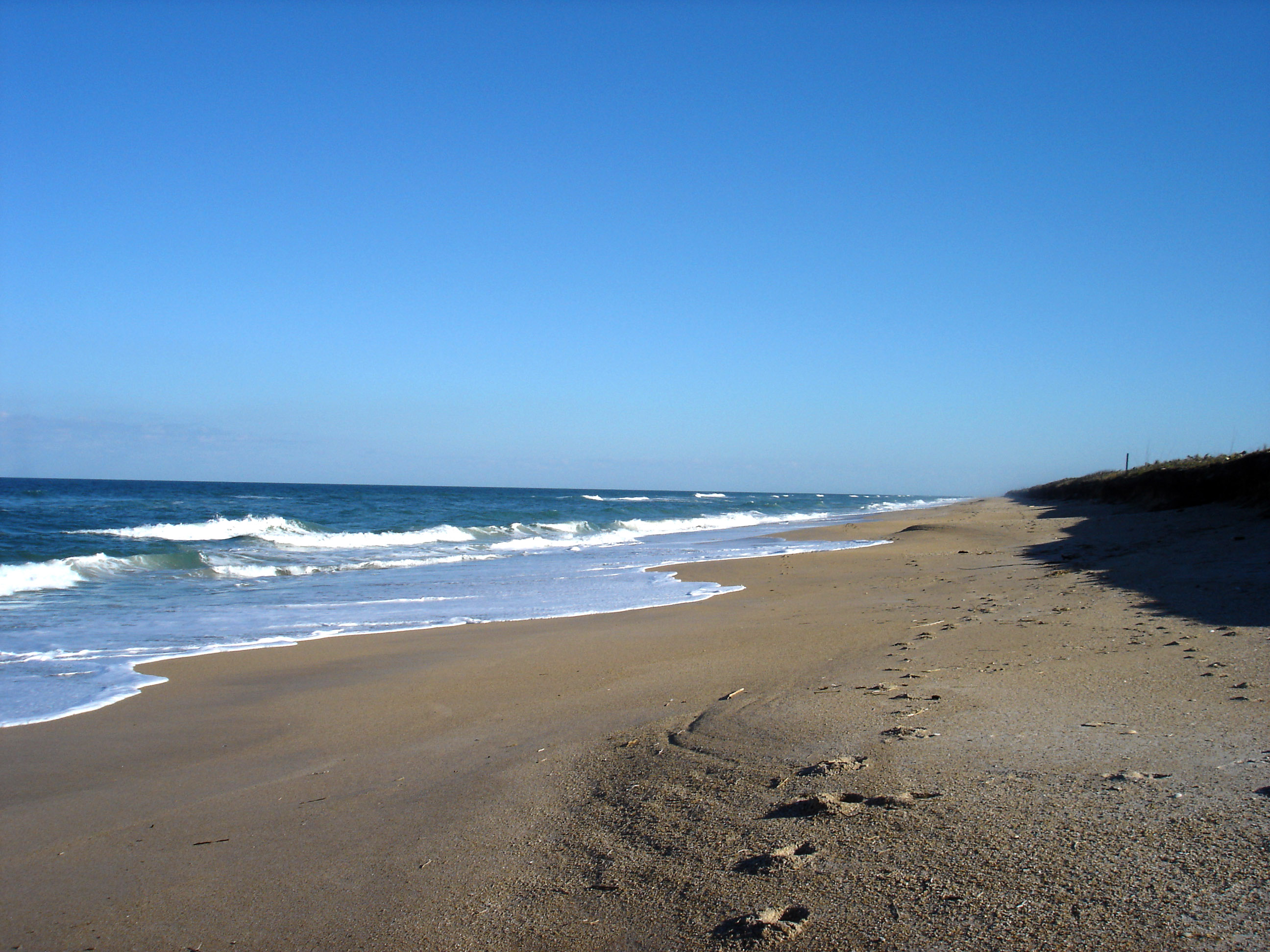 This is a view looking SSE down Canaveral National Seashore on February 19, 2005. Source I, Joneboi, created this picture on 2/19/2005.